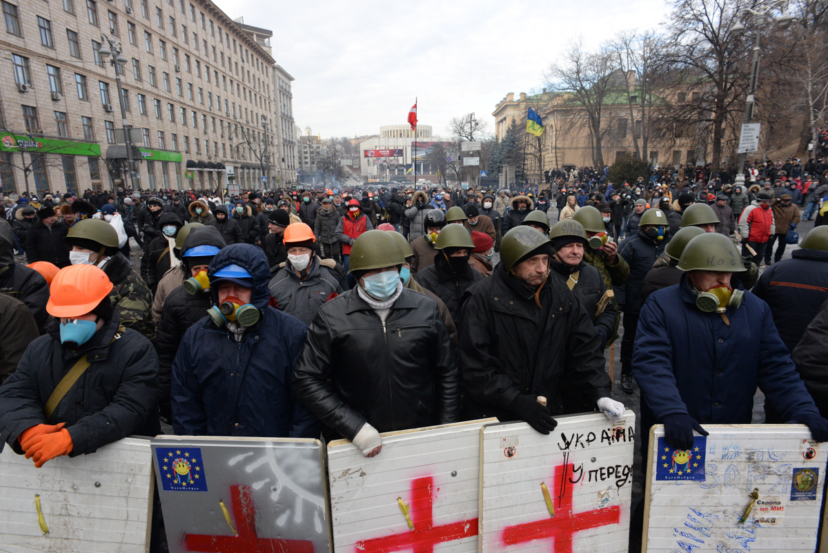 Line of protesters at Dynamivska str. Euromaidan Protests. Events of Jan 20, 2014